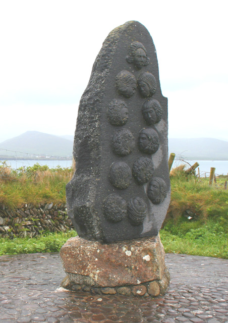 Monument commemorating the Smerwick Harbour massacre Monument at the Field of the Heads (Gort na gCrann) near Dun an Oir commemorating the massacre of around 600 Irish, Spanish and Italian men and women by English troops commanded by Lord Grey of Wilton in 1580. It is said that the victims were decapitated and their heads buried here. The monument dates from 1980; the seaward side bears a cross and a Gaelic inscription 'igcuimhne dhun an oir samhain 1580'